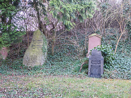 Judenfriedhof Albisheim 2